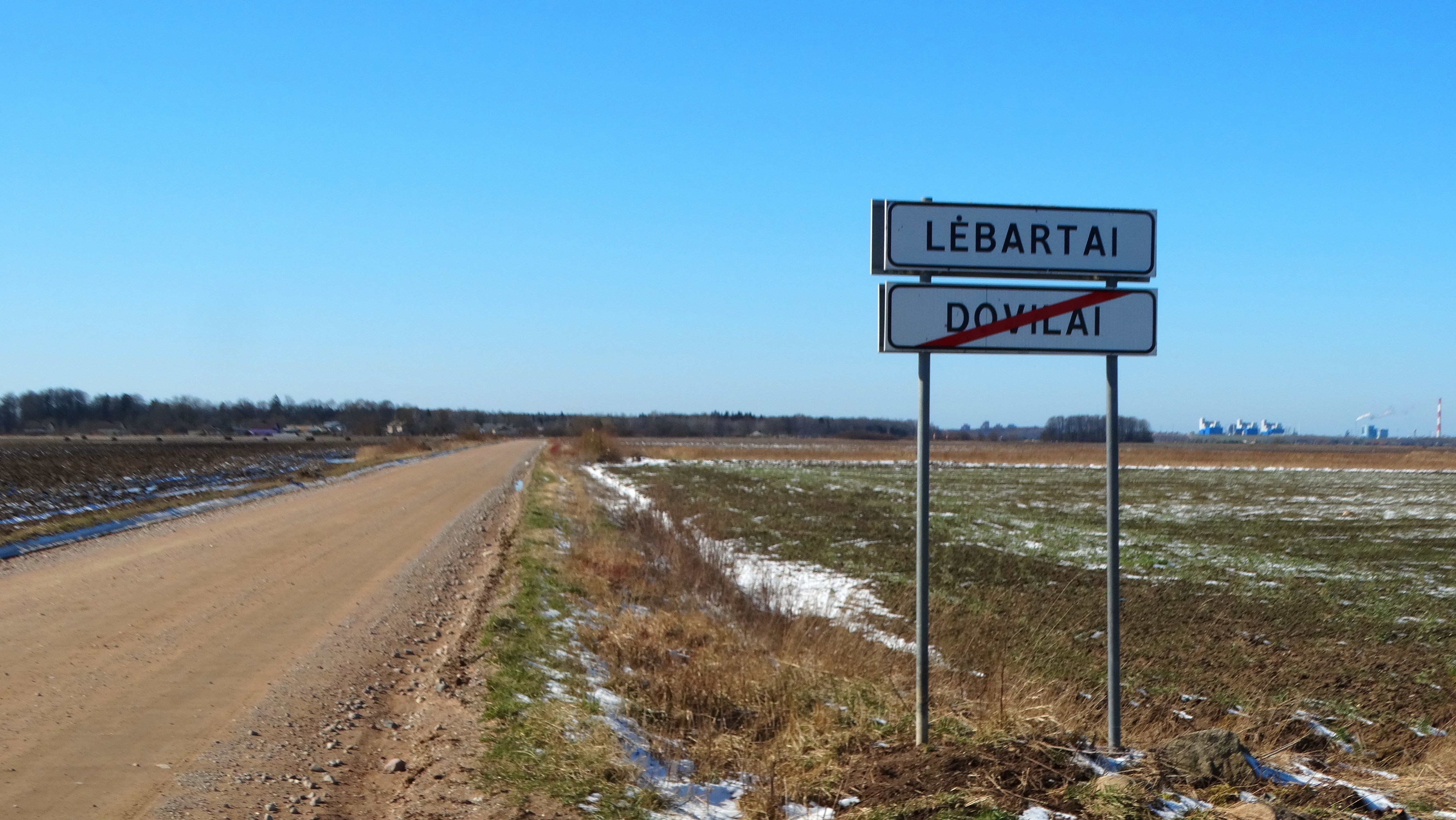 Lėbartai, Klaipėda district, Lithuania